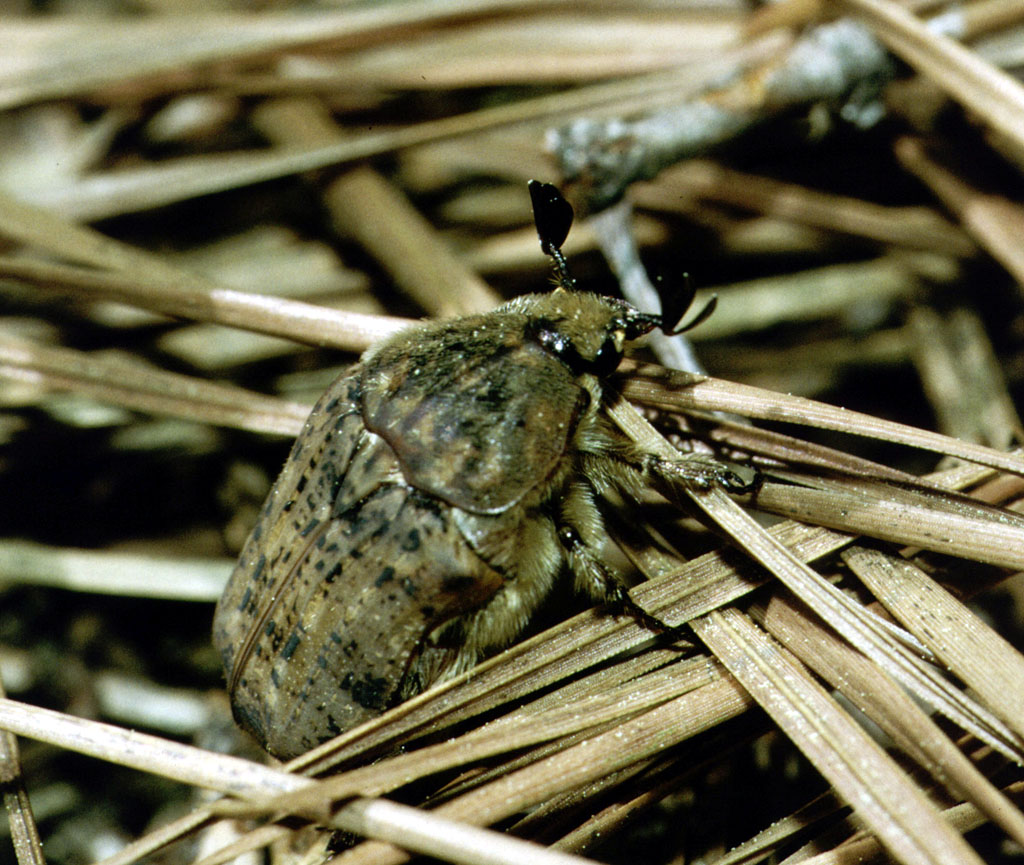 Bumble flower beetle, Euphoria inda. Location: Durham County, North Carolina, United States. Identification references: BugGuide; Dillon, Elizabeth S., and Dillon, Lawrence (1961). A Manual of Common Beetles of Eastern North America. Evanston, Illinois: Row, Peterson, and Company.